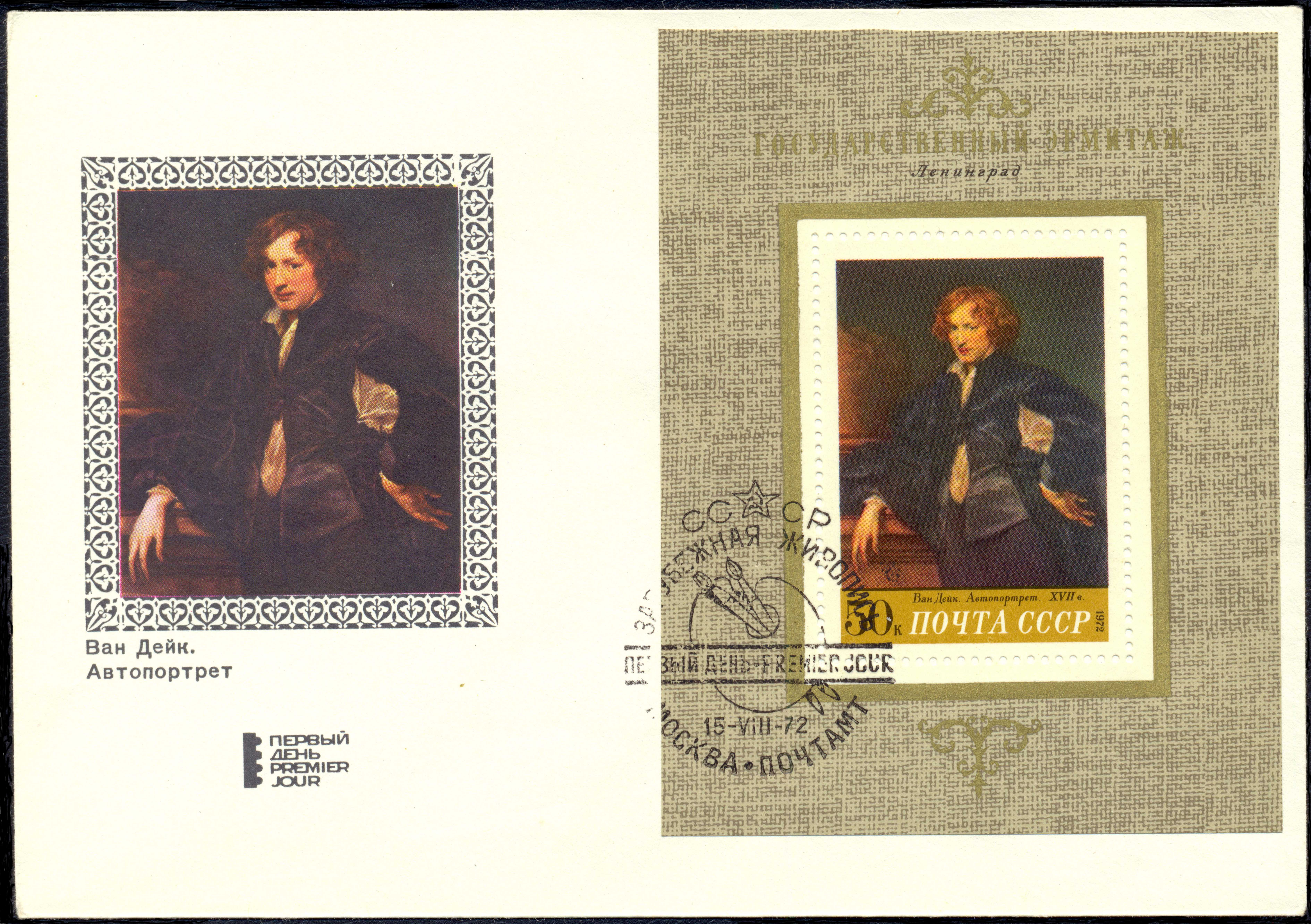 USSR First Day Cover dedicated to Van Dyck with souvenir sheet, 1972, 30 kop.